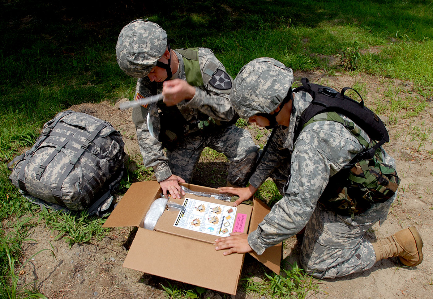 The Unitized Group Ration-Express (UGR-E) is a hybrid meal kit designed to feed a group for one meal. The express form is packed with a self-heating module and disposable accessories. The soldiers depicted are activating the self heating module by pulling the tab(s), which releases an activating fluid (typically salt water).